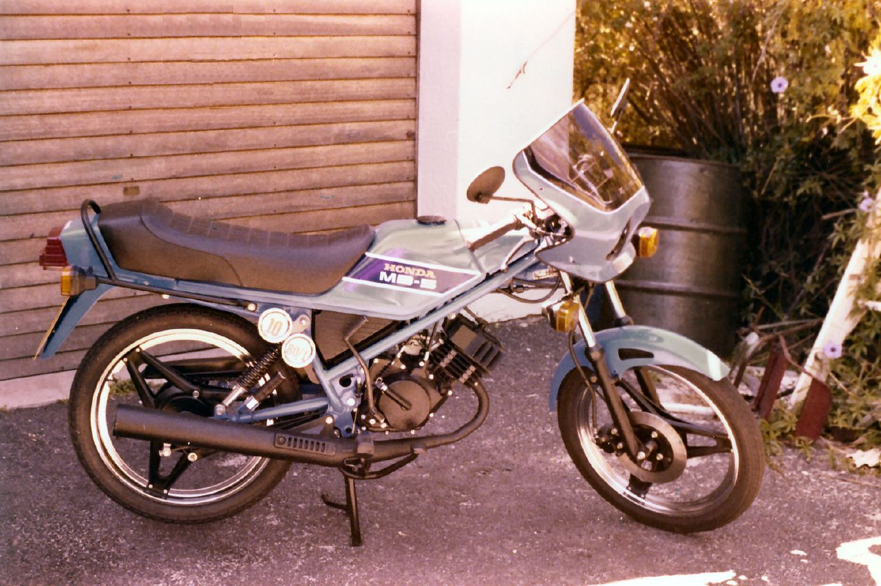 This was a Honda MB-5 Bobcat that I rode to school every day. My favourite trick was to put the bike into a sideways slide and slide down the road (staying upright that is). Shortly after getting this bike I must have had about 8 different road accidents including riding off a mountain road, taking off a car door, etc. I never had any injuries but it was an important lesson in defensive driving.